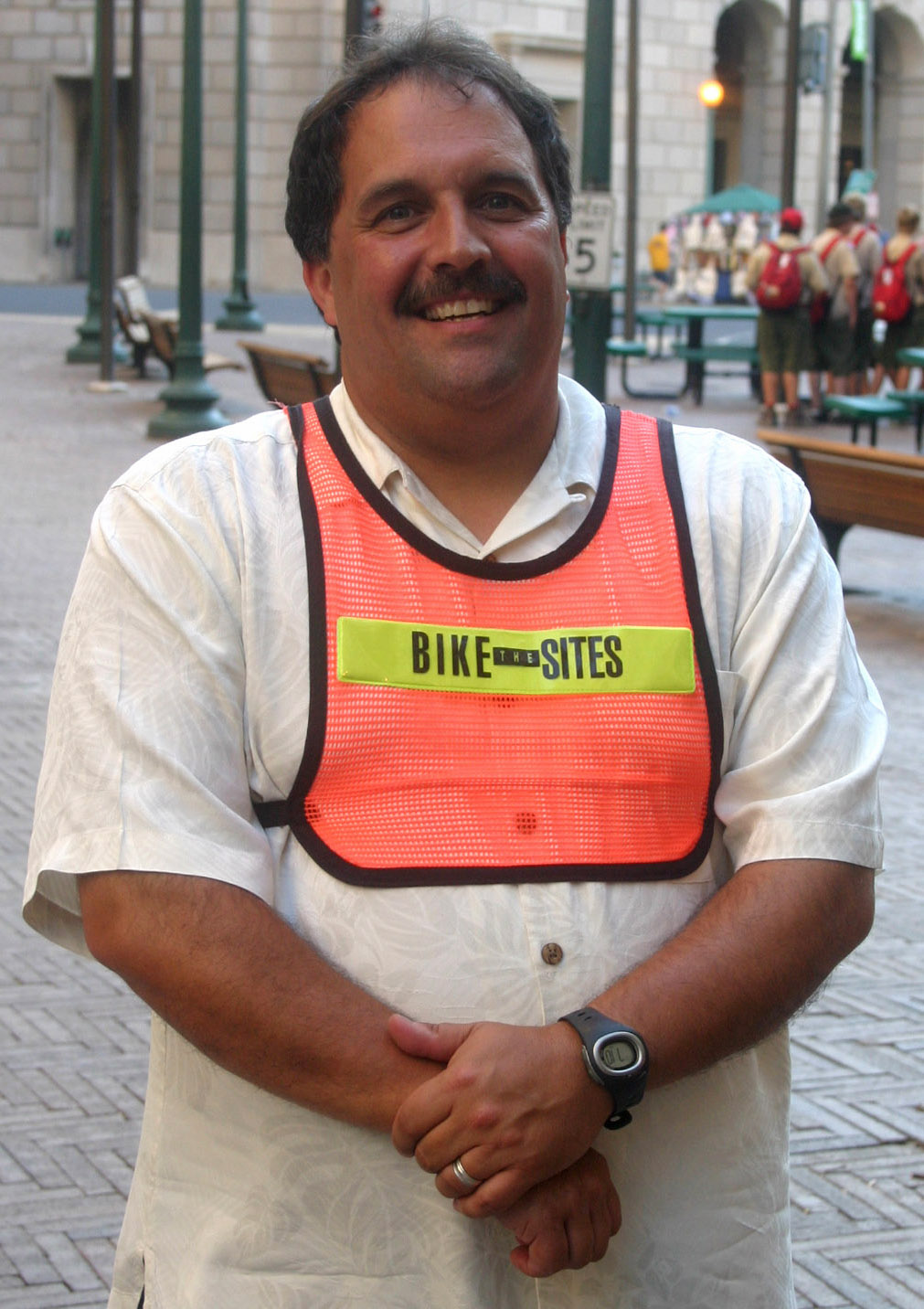 Stan Van Gundy, volunteering for "Bike the Sites", State University of New York at Brockport